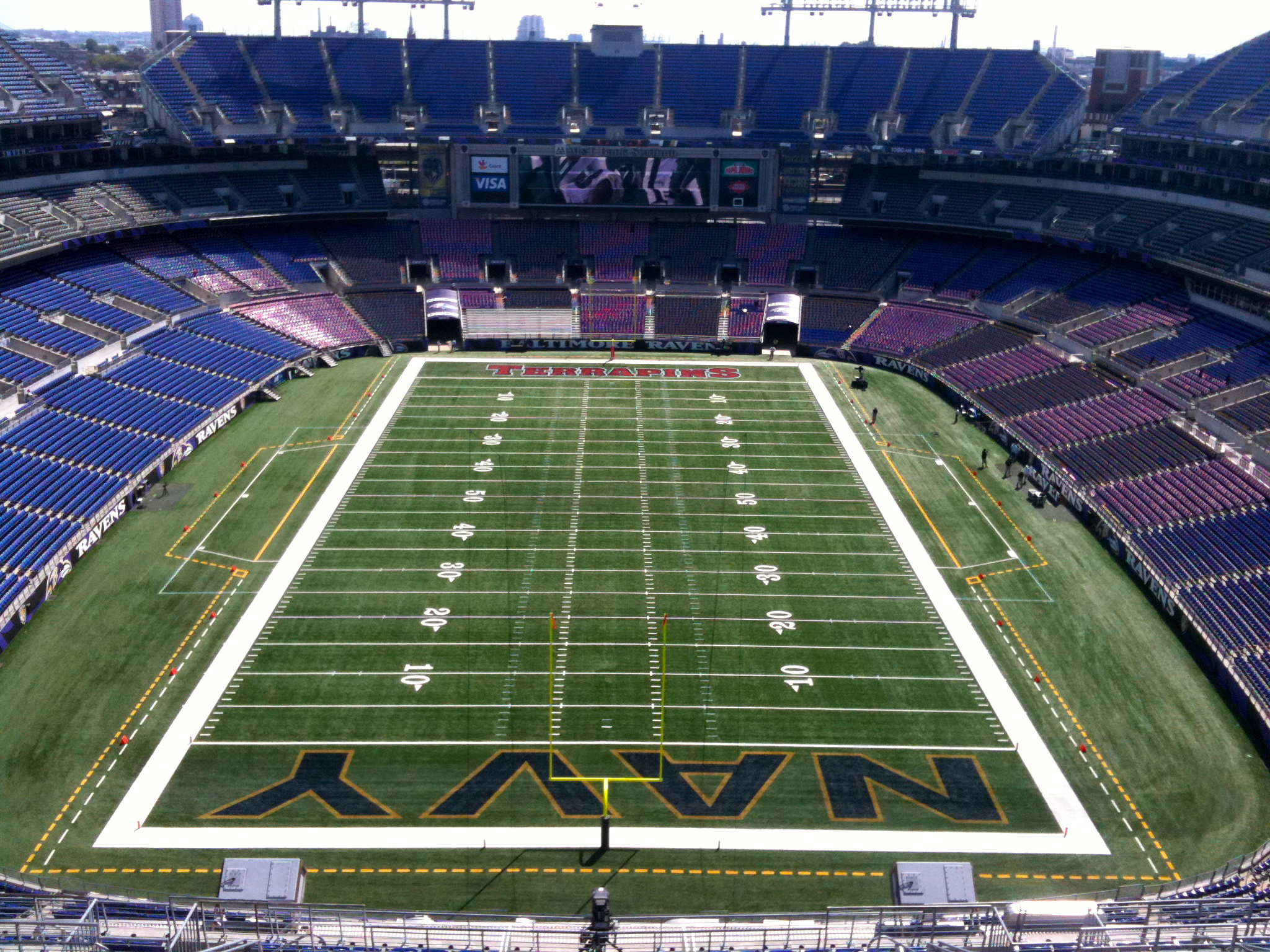 M&T Bank Stadium with the endzones marked for the Maryland–Navy game.